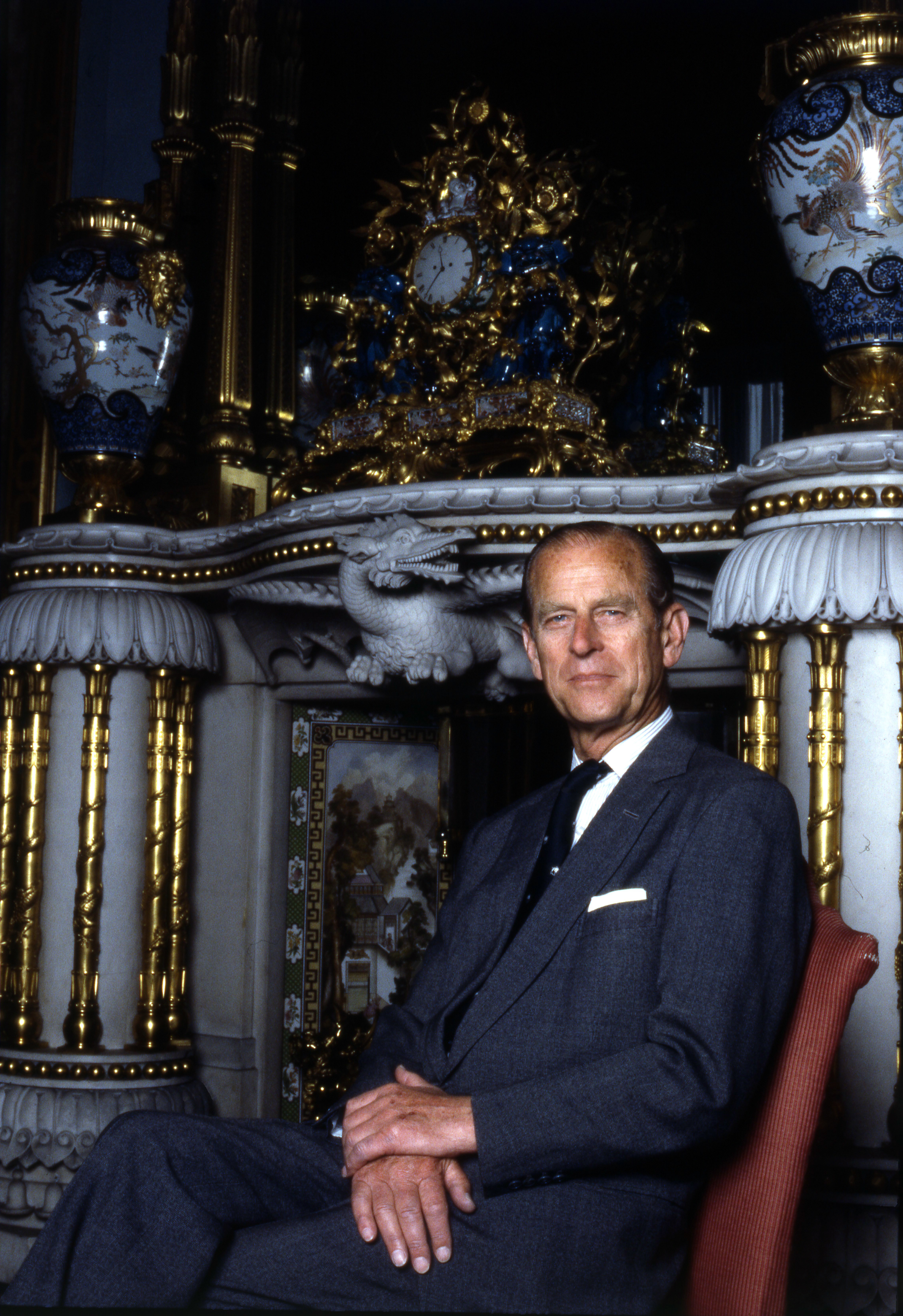 HRH Prince Philip